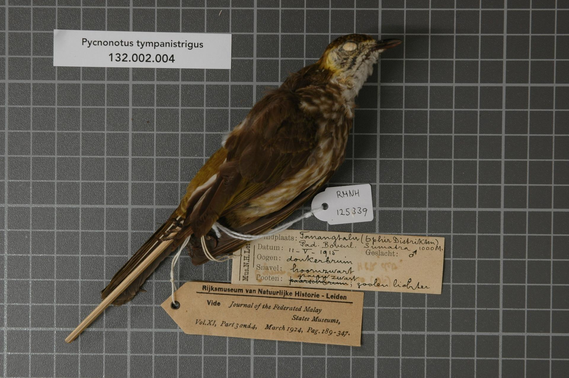 Pycnonotus tympanistrigus (S. Muller, 1835)